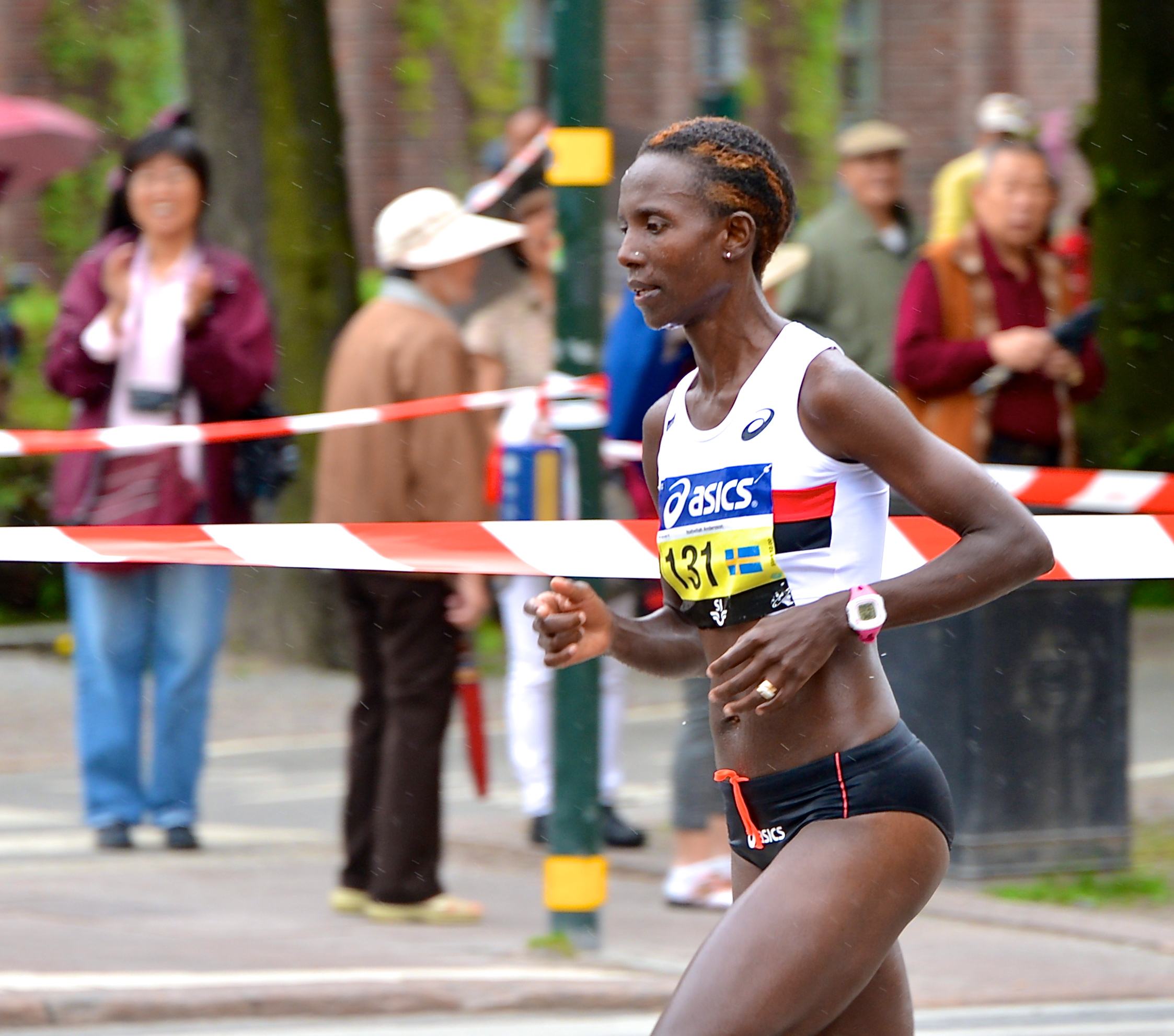 Isabella Andersson in Stockholm marathon June 1, 2013.